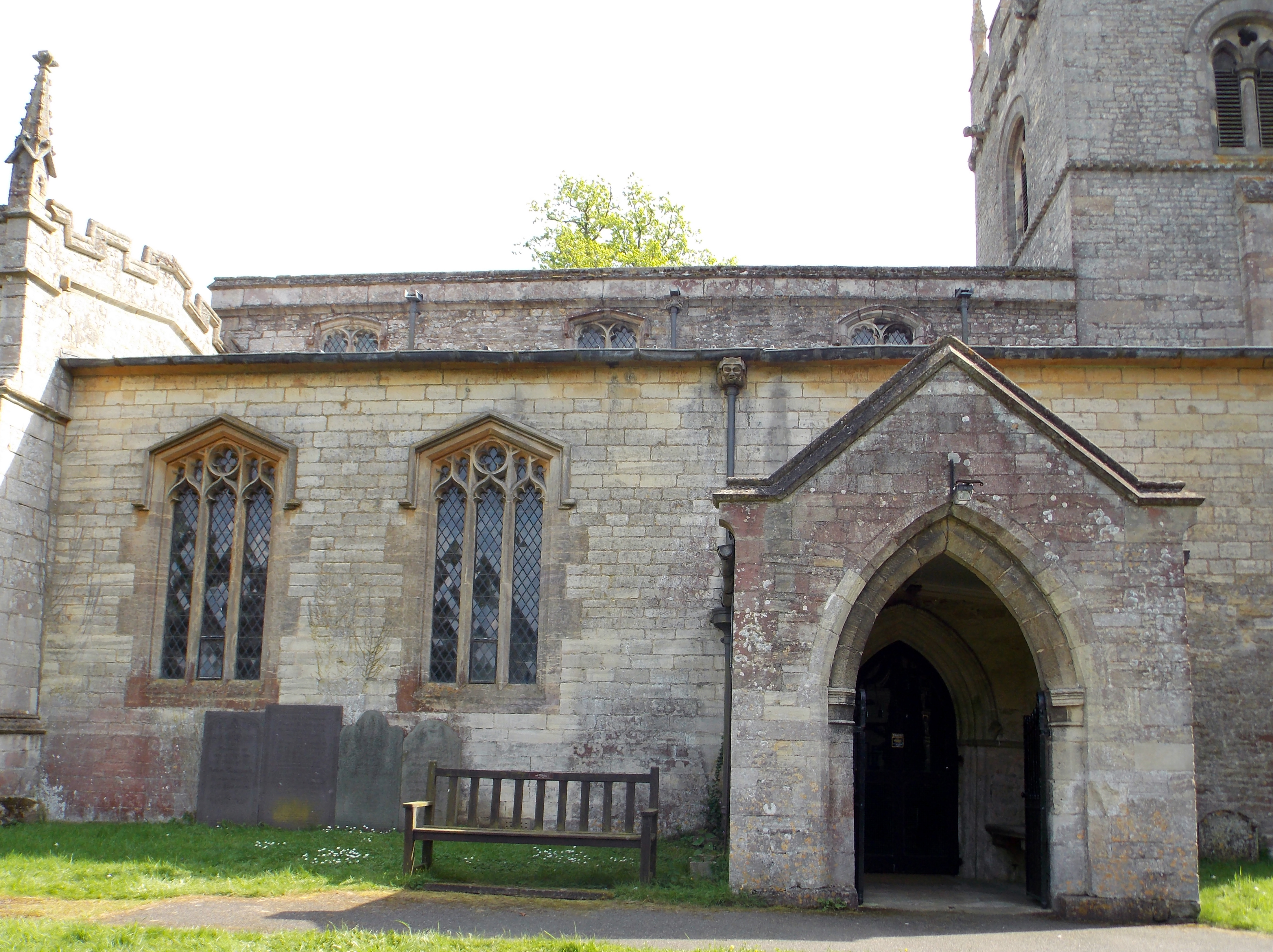 Ss Andrew & Mary Church, Stoke Rochford, exterior - north aisle and porch